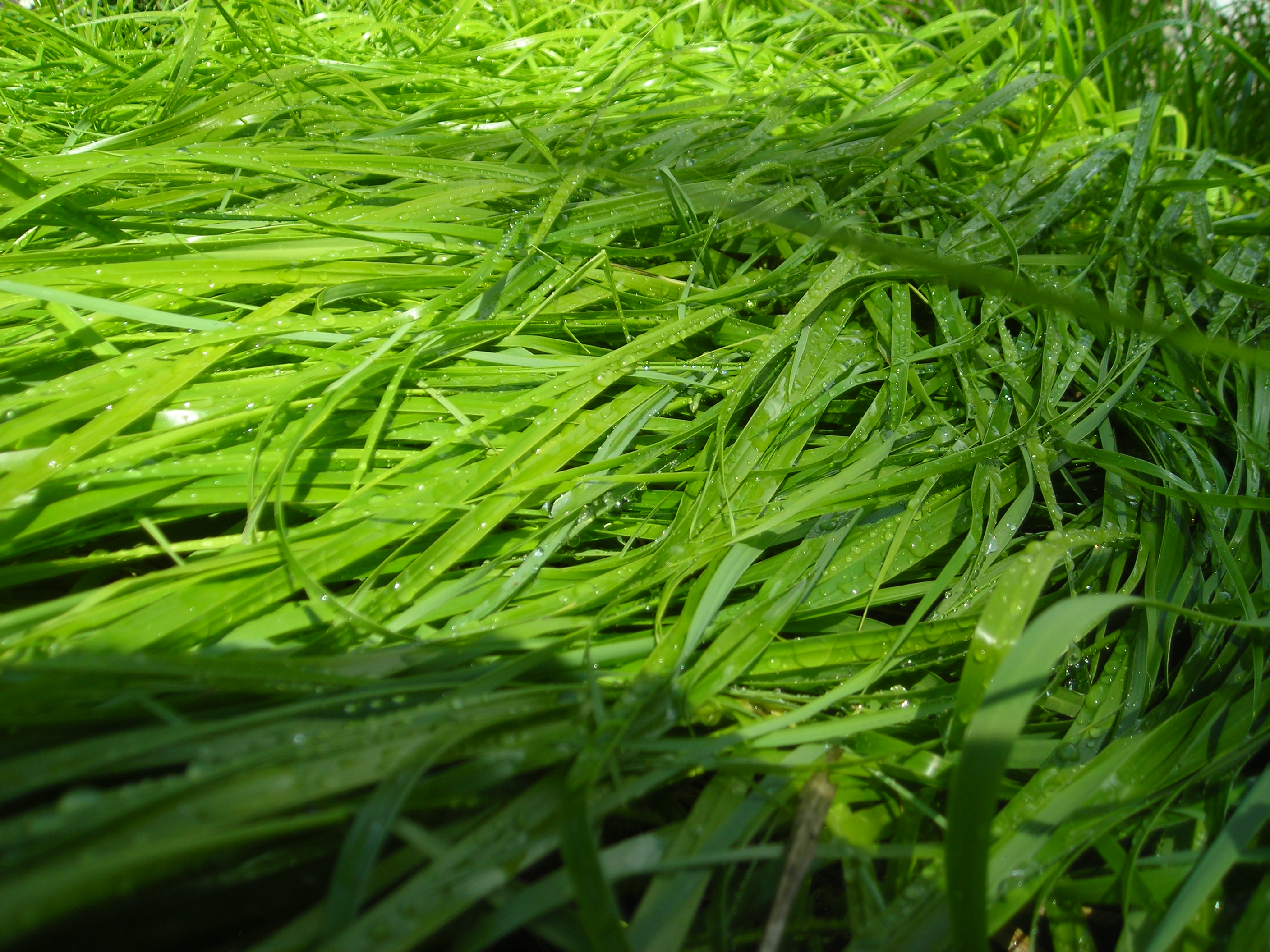 A close-up of Sweet grass from the Sanctuary Ecovillage in Grand Forks, BC, Canada.